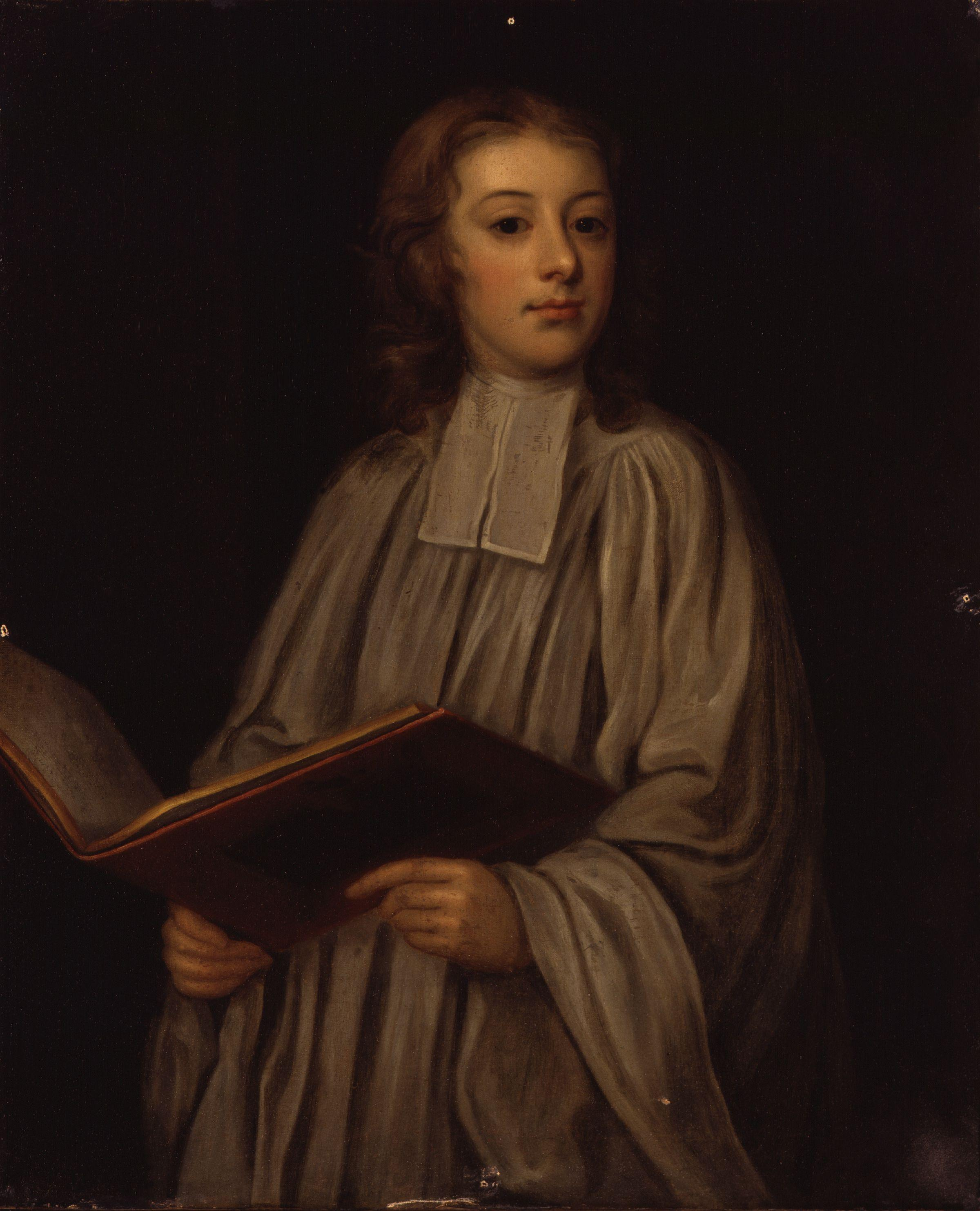 William Croft, by unknown artist. All images in this batch have an unknown author, but there is strong evidence it was first published before 1923 (based mainly on the NPG's estimated date of the work).